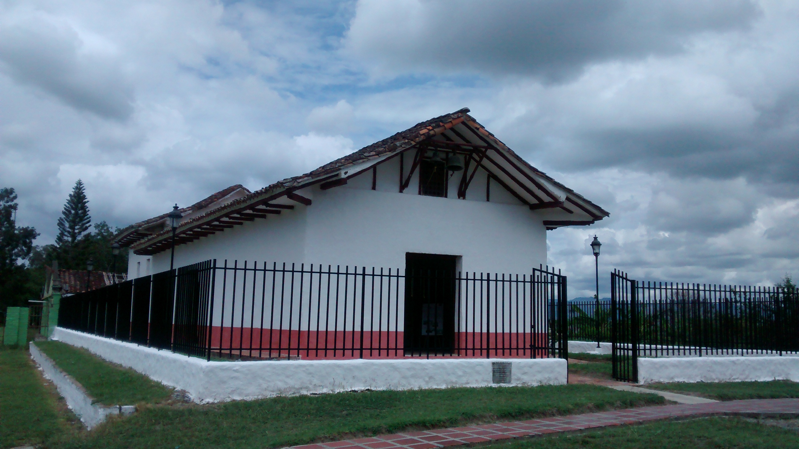 Saint John Chapel, Toro, Colombia